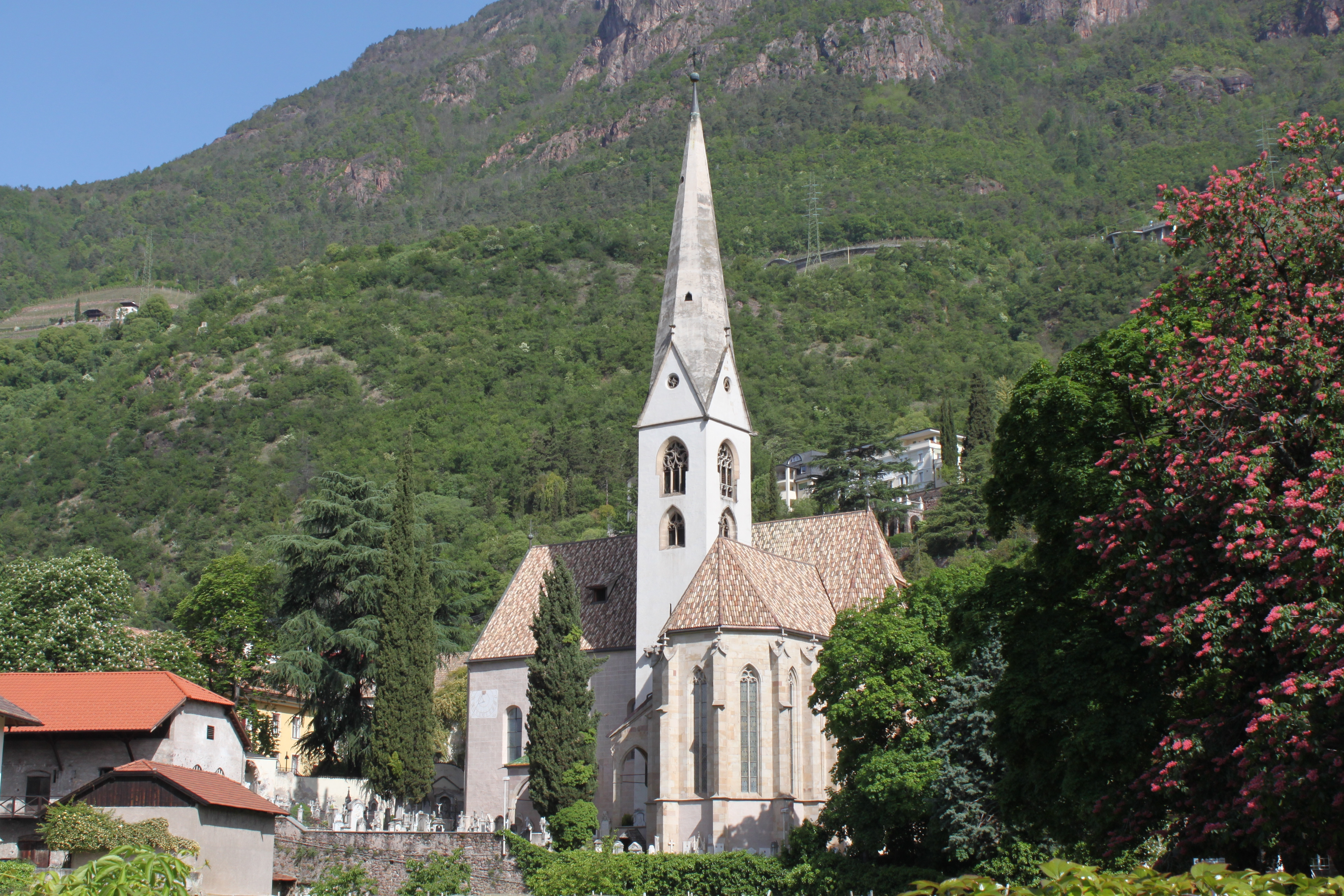 Old Parish Church in Gries Bozen Bolzano (south view)